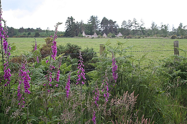 Wards Bare walls and gable ends are all that is left of the houses and buildings at Wards.